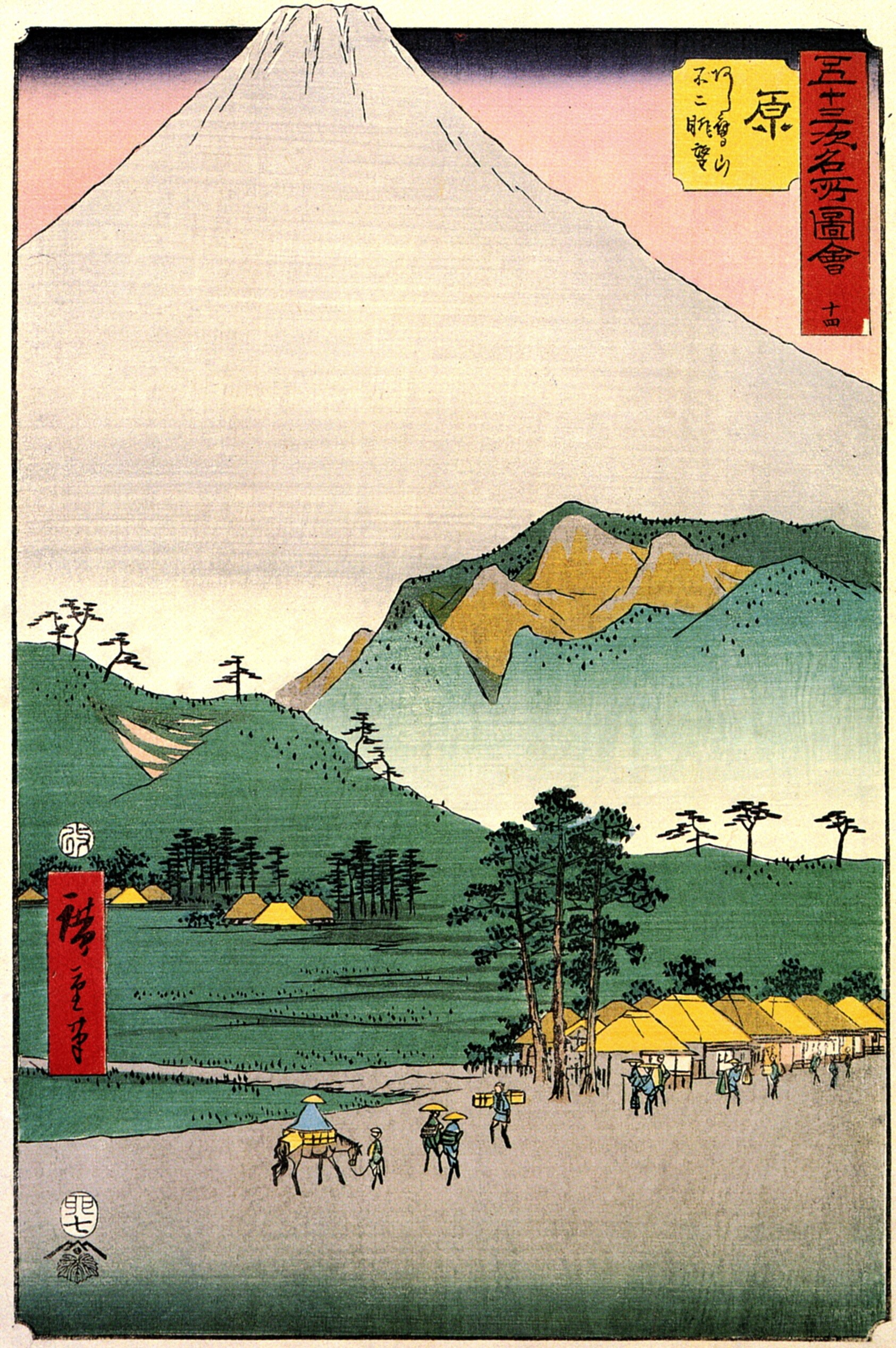 "Famous Places of the Fifty-three Stations of the Tōkaidō (GojūSanTsugi-MeishoZu'e), No. 14, Hara". Mt. Fuji and Mt. Ashitaka from Hara.